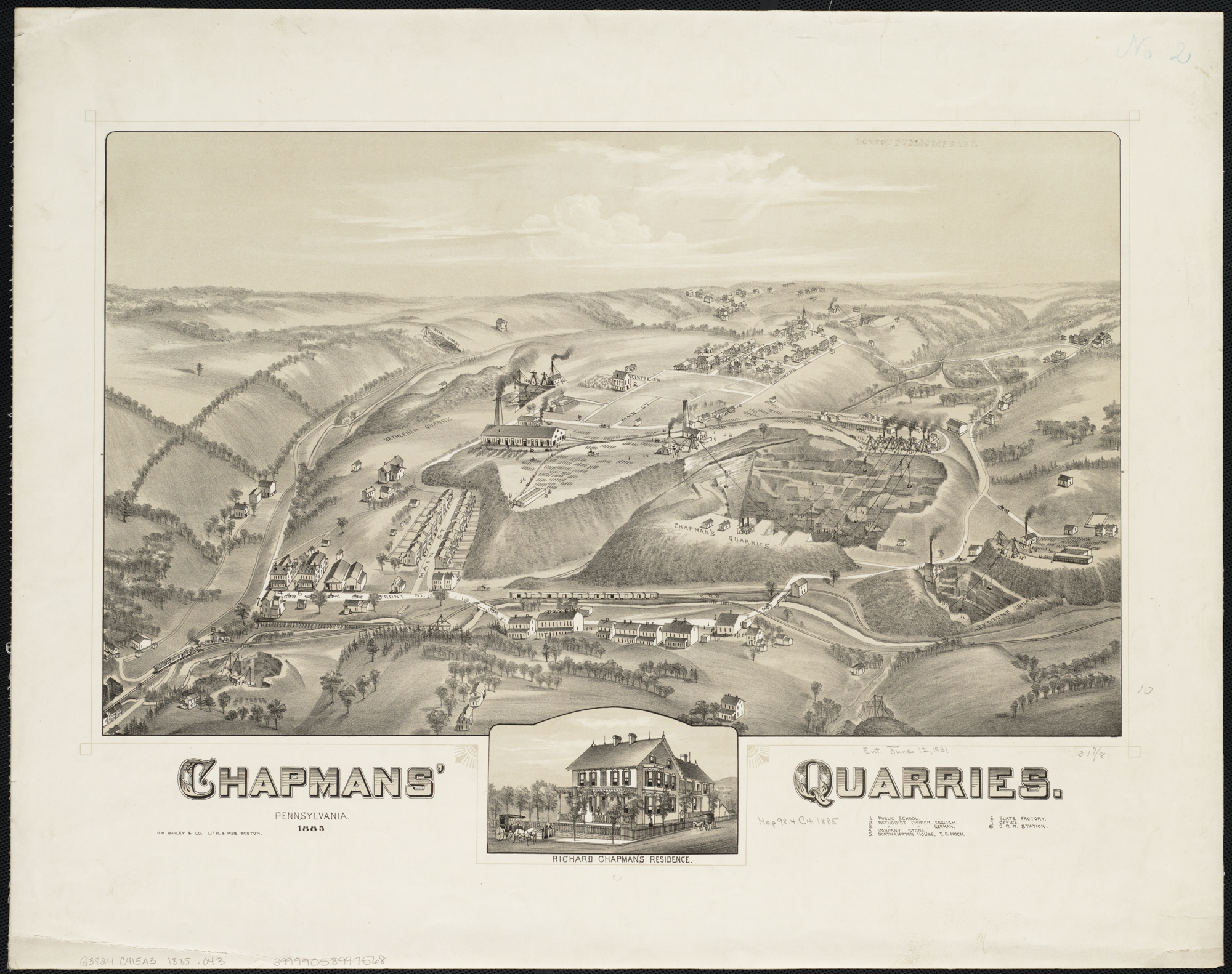 Zoom into this map at . Author: O.H. Bailey & Co. Publisher: O.H. Bailey & Co. Date: 1885 Scale: Not drawn to scale. Call Number: G3824.C415A3 1885.O43